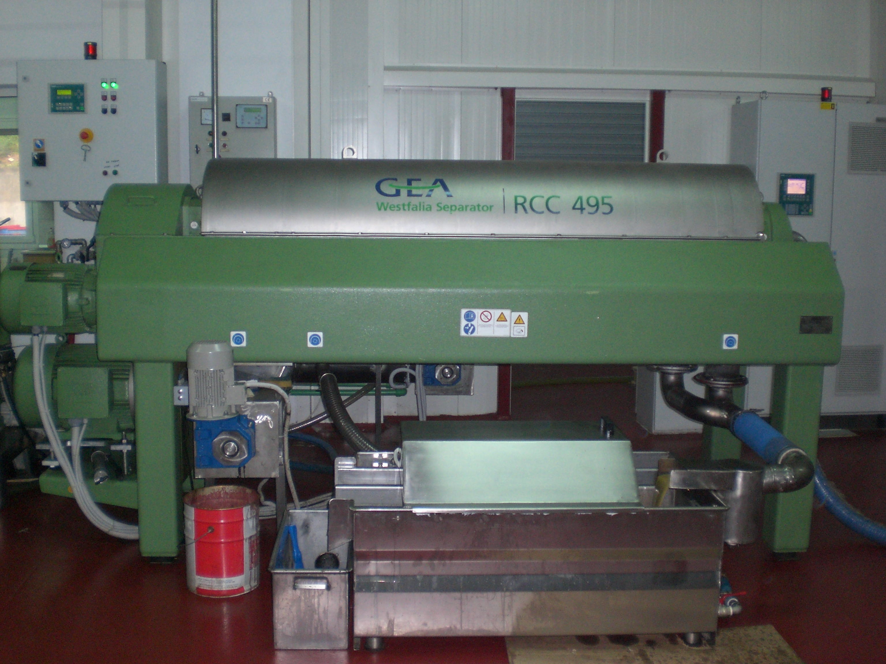 Olive oil separation with decanter technology